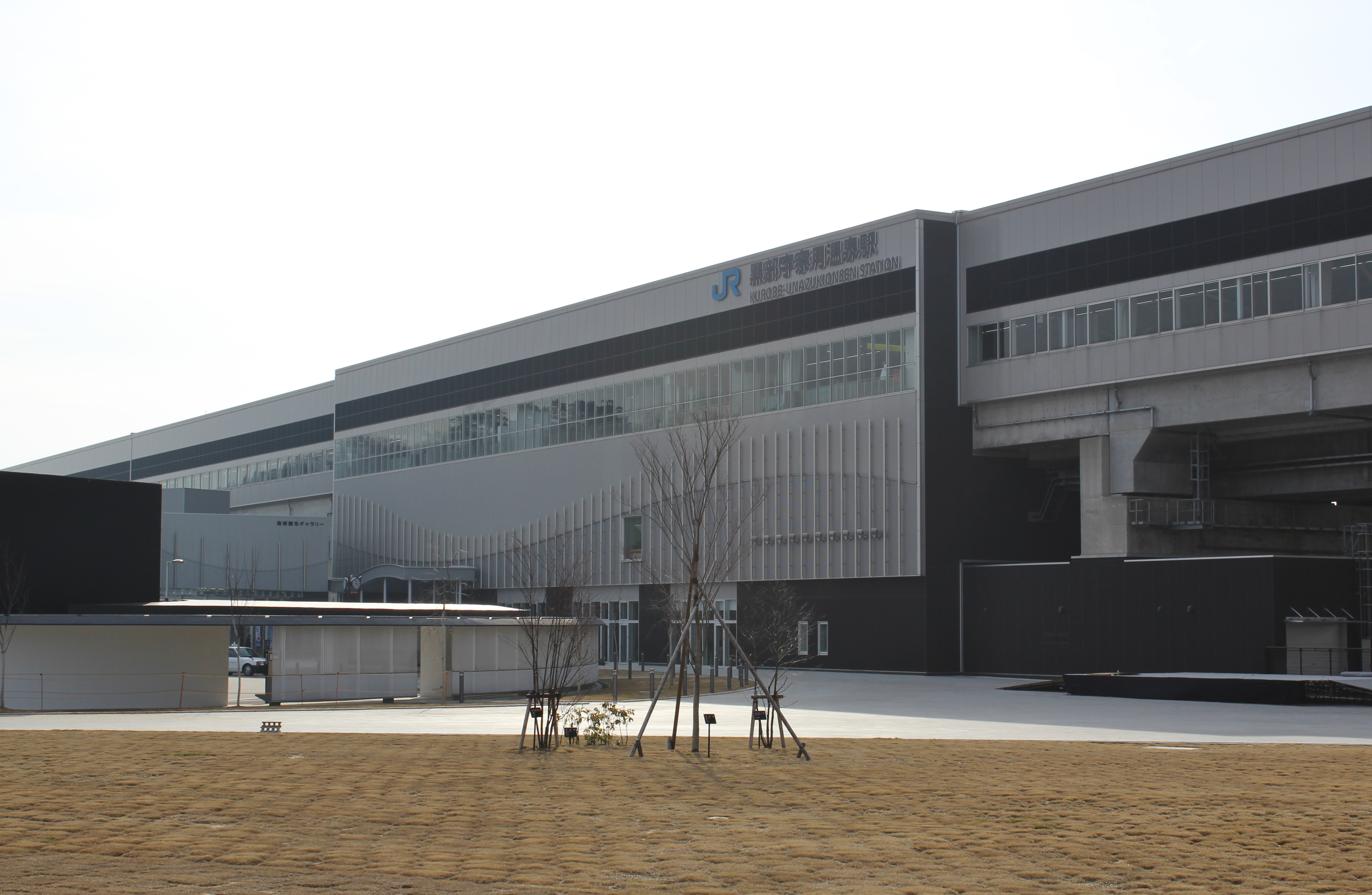 The exterior of Kurobe-Unazukionsen Station on the Hokuriku Shinkansen in Toyama Prefecture, Japan